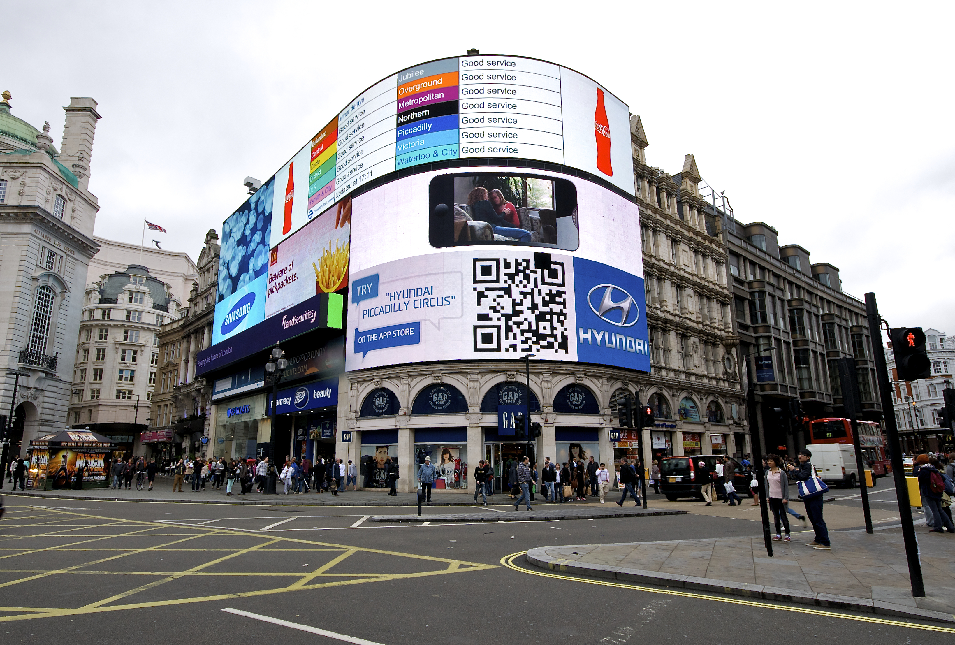 Picadilly Circus